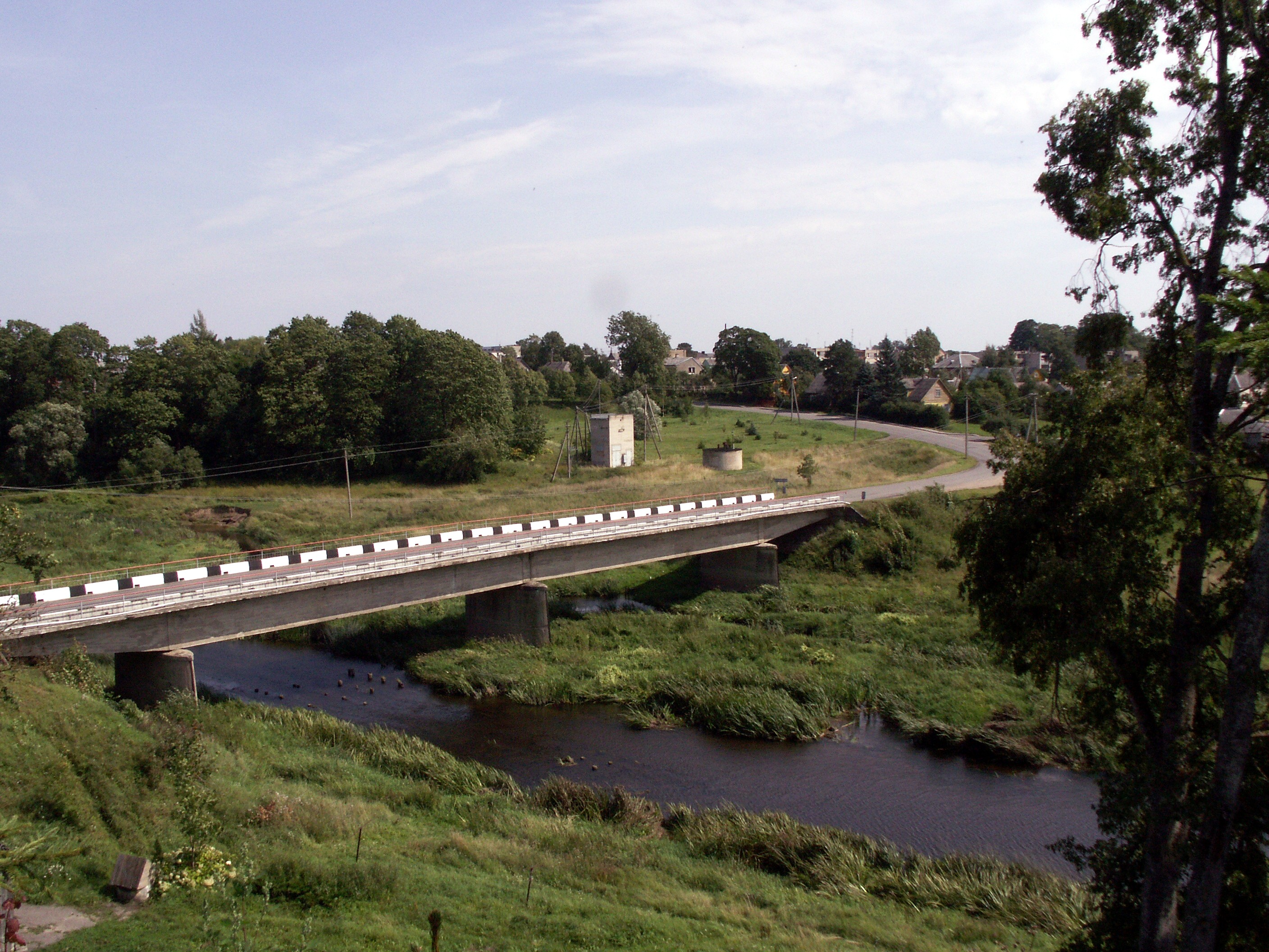 Papilė, Venta bridge, Akmenė district